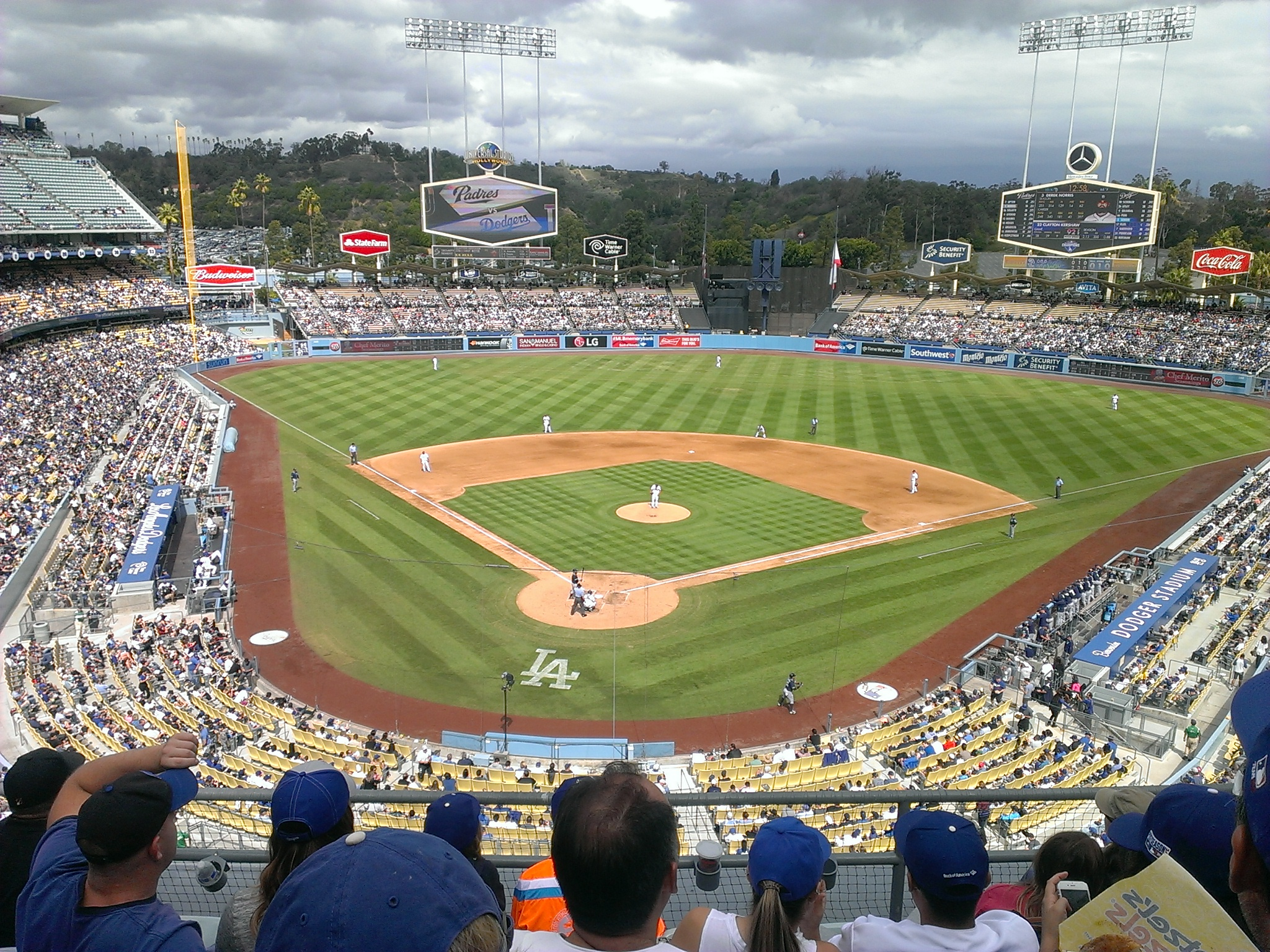 Dodger Stadium viewed from the upper deck.